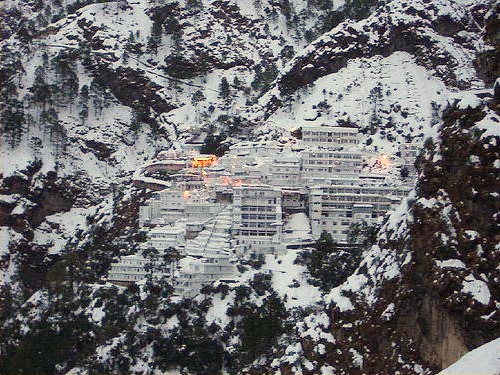 Description: Vaishno Devi Bhawan, Darbar Source: photo taken by User:Deepak Date: 2nd January 1995 Permission: User:Deepak released it on 31st December 2005 under CC-BY-SA-2.0